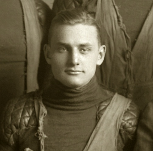 Photograph of Dave Allerdice cropped from portrait of 1909 Michigan Wolverines football team.